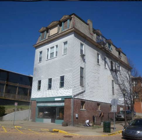 Looking north from a trolley car, across Willow Avenue and Poplar Street, at a mansard roofed building in Castle Shannon on a sunny midday.